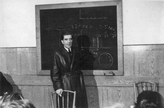 Zoltán Bay's presentation about Moon-radar